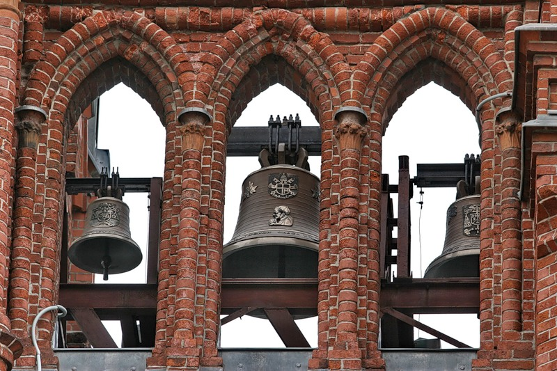 Cathedral of the Immaculate Conception of the Holy Virgin Mary, Moscow. Church bells.